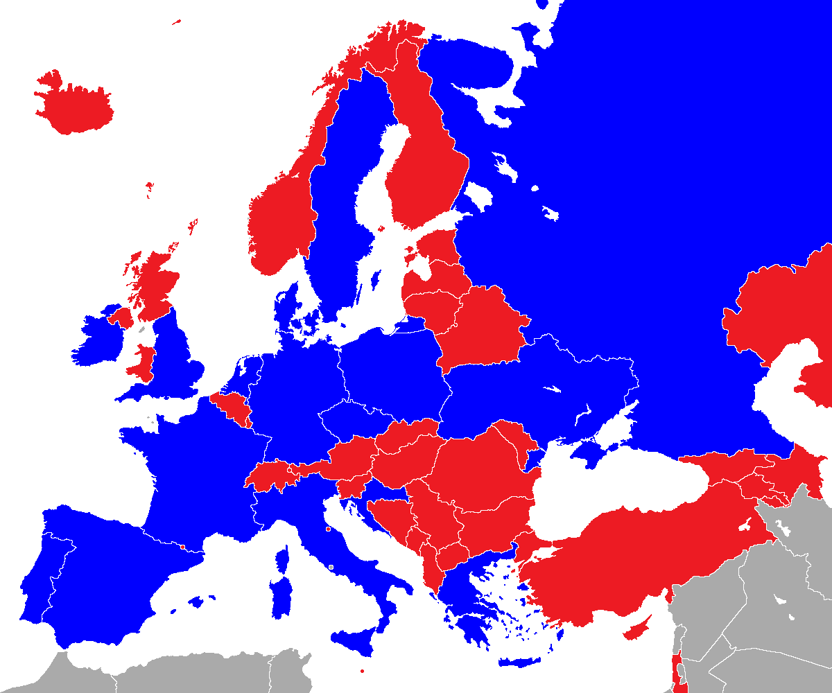 Qualified Failed to qualify Country is not a UEFA member